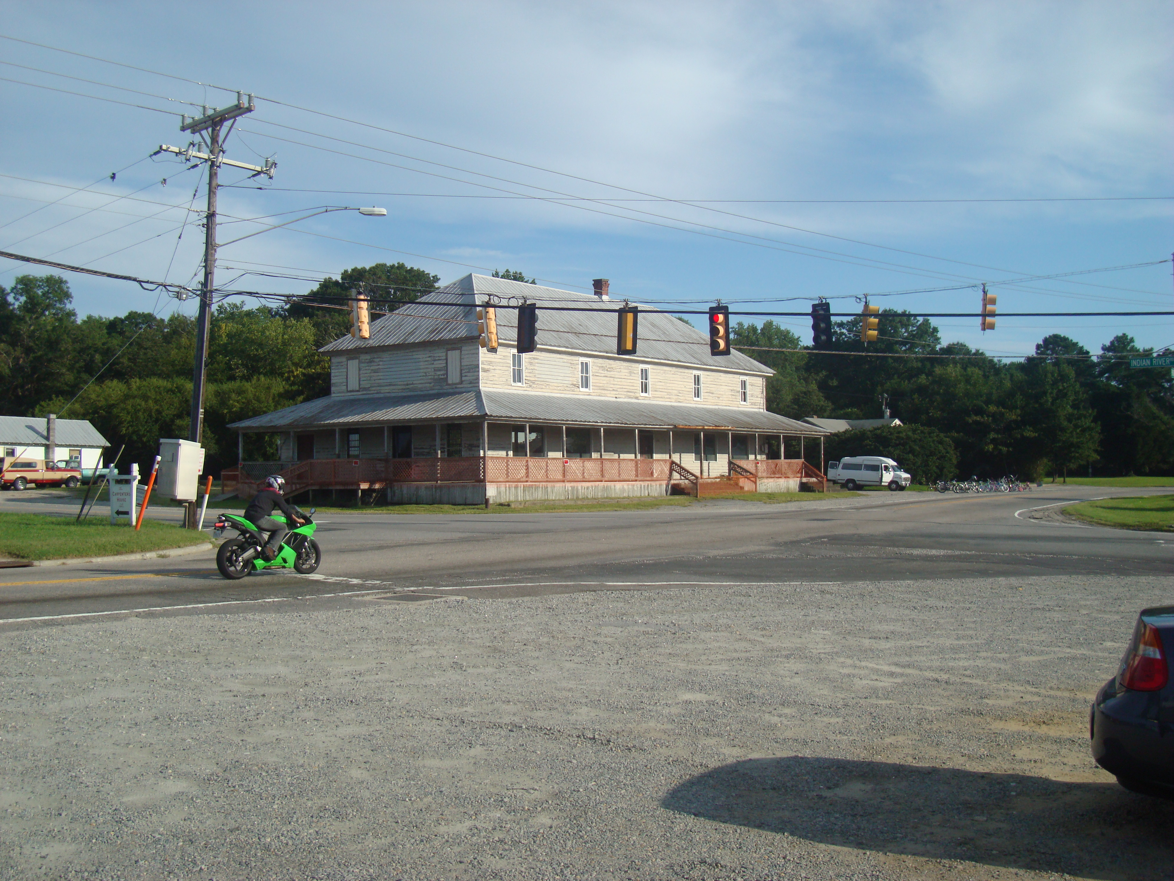 The only stoplight in Pungo, Virginia. Munden's Store (now closed and without its sign) is on the far side of the intersection. Photo taken from Henley's Farm Market. This is the intersection of Princess Anne Road and Indian River Road.